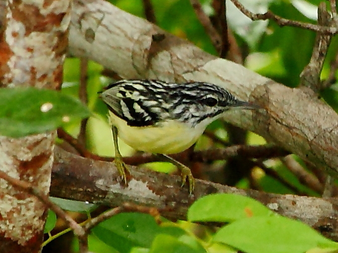 Pigmy antwren at Manaus - AM - Brazil